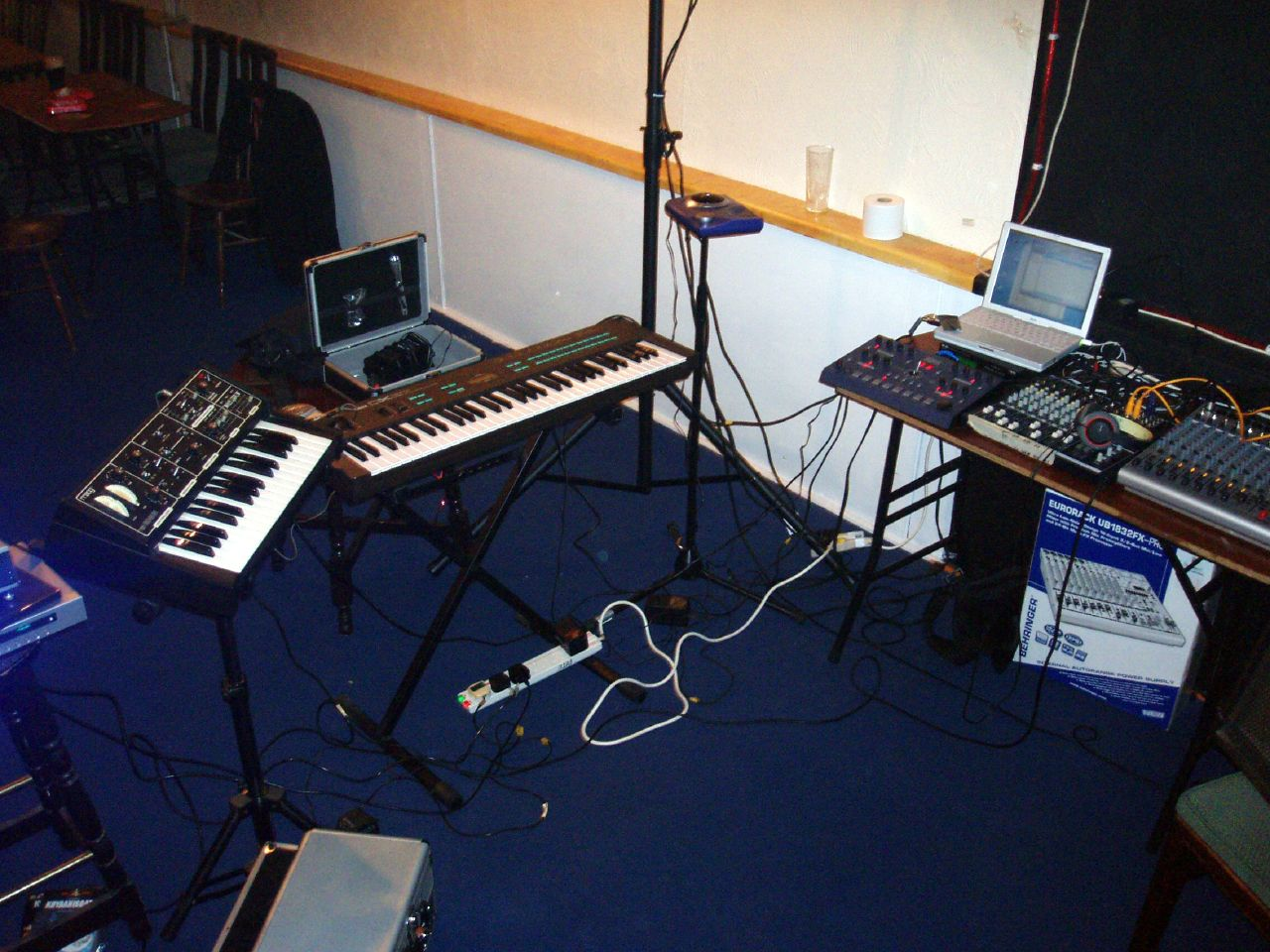 Wizards of Mass Distraction Queens gig May 2005 Moog Rogue Yamaha DX27 Alesis AirFX Red Sound Darkstar XP2 Red Sound Federation BPM FX Pro Note PC unknown sound module unknown 8tr mixer Behringer UX-1832FX Pro